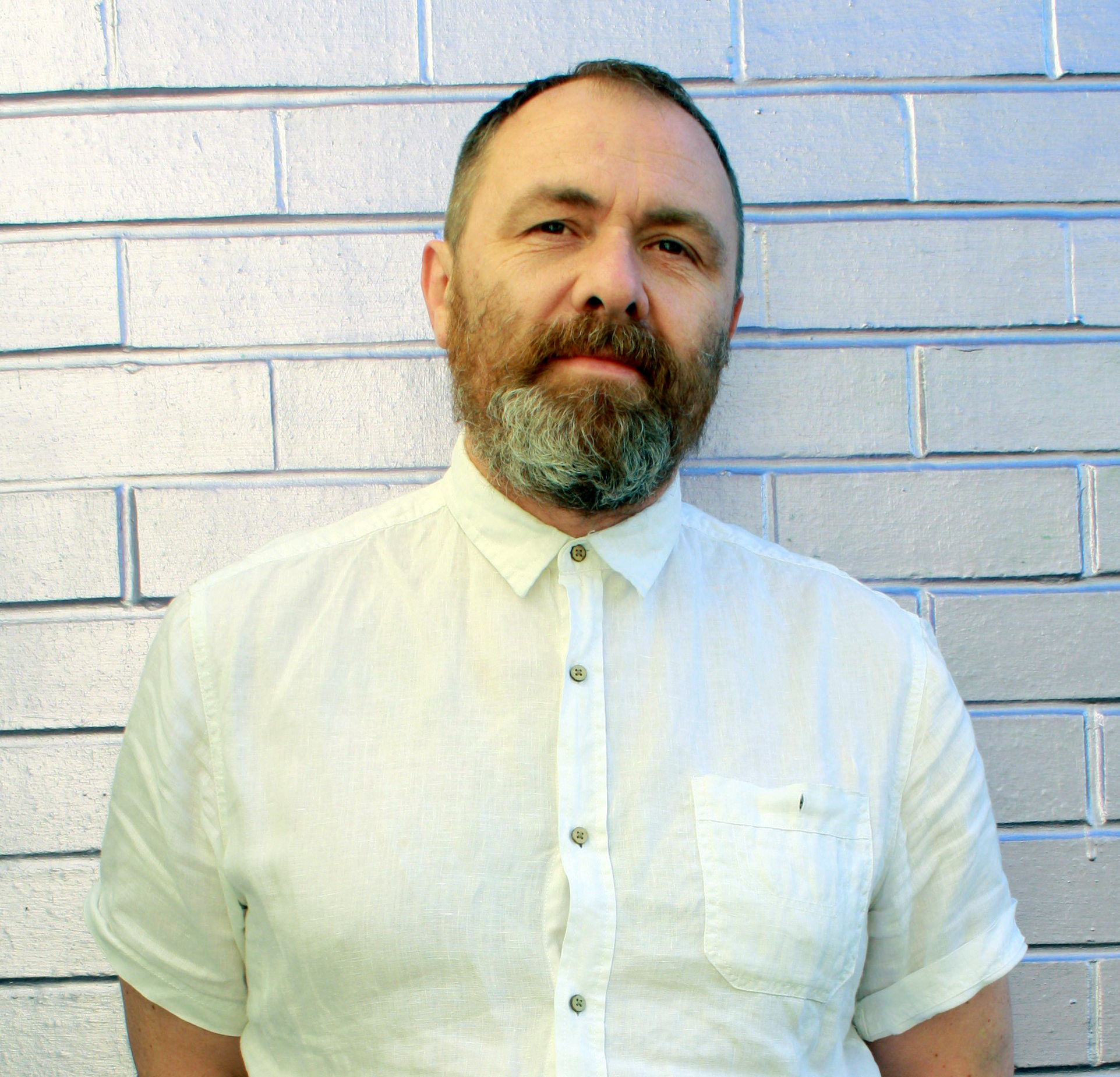 Producer